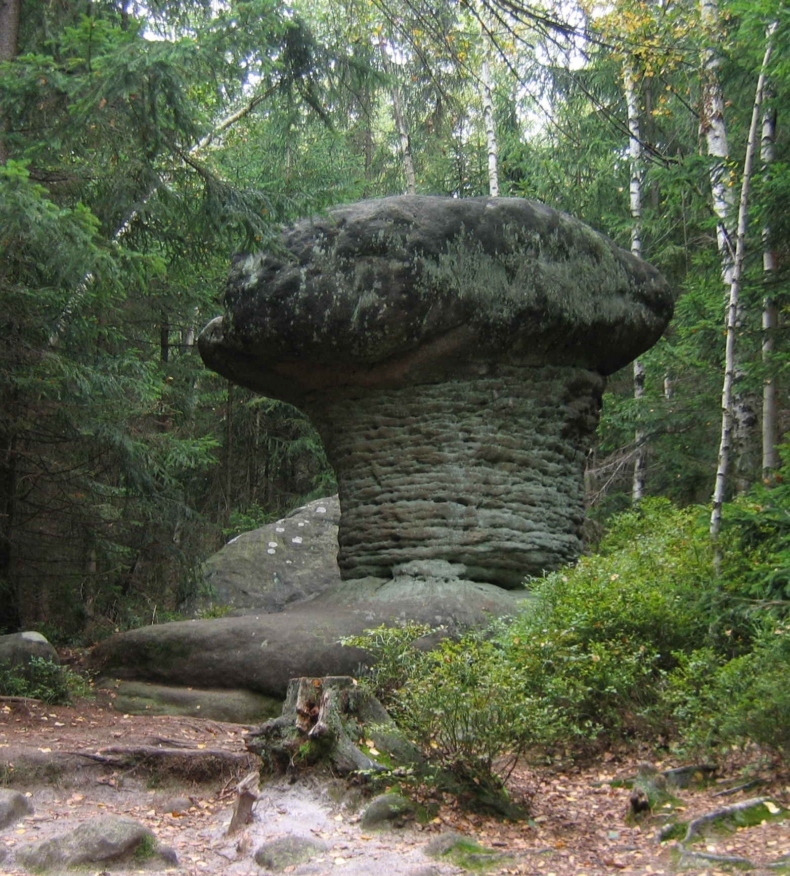 Rocky mushrooms